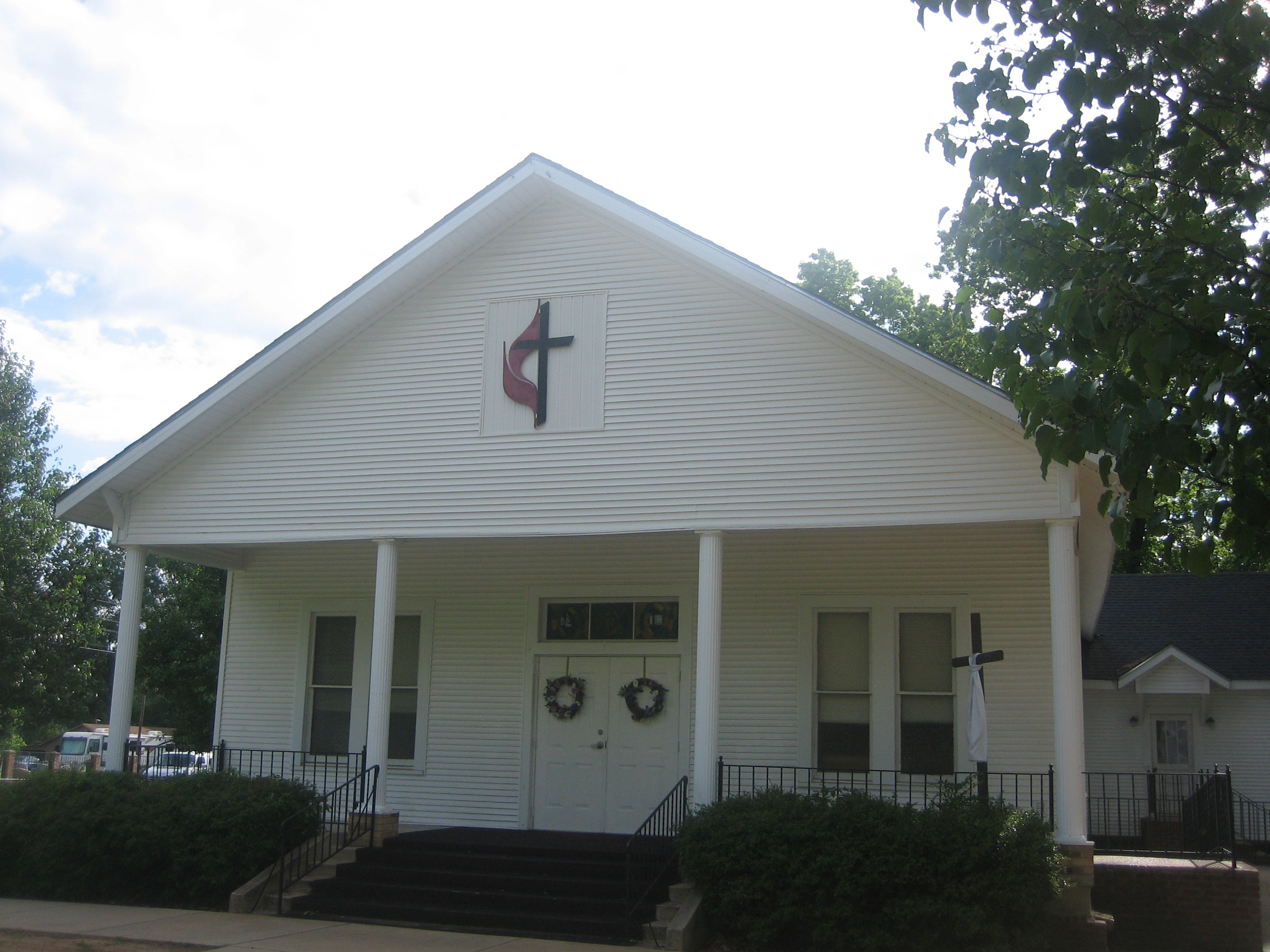 I took photo on May 21, 2009.Billy Hathorn (talk) 16:01, 29 May 2009 (UTC)